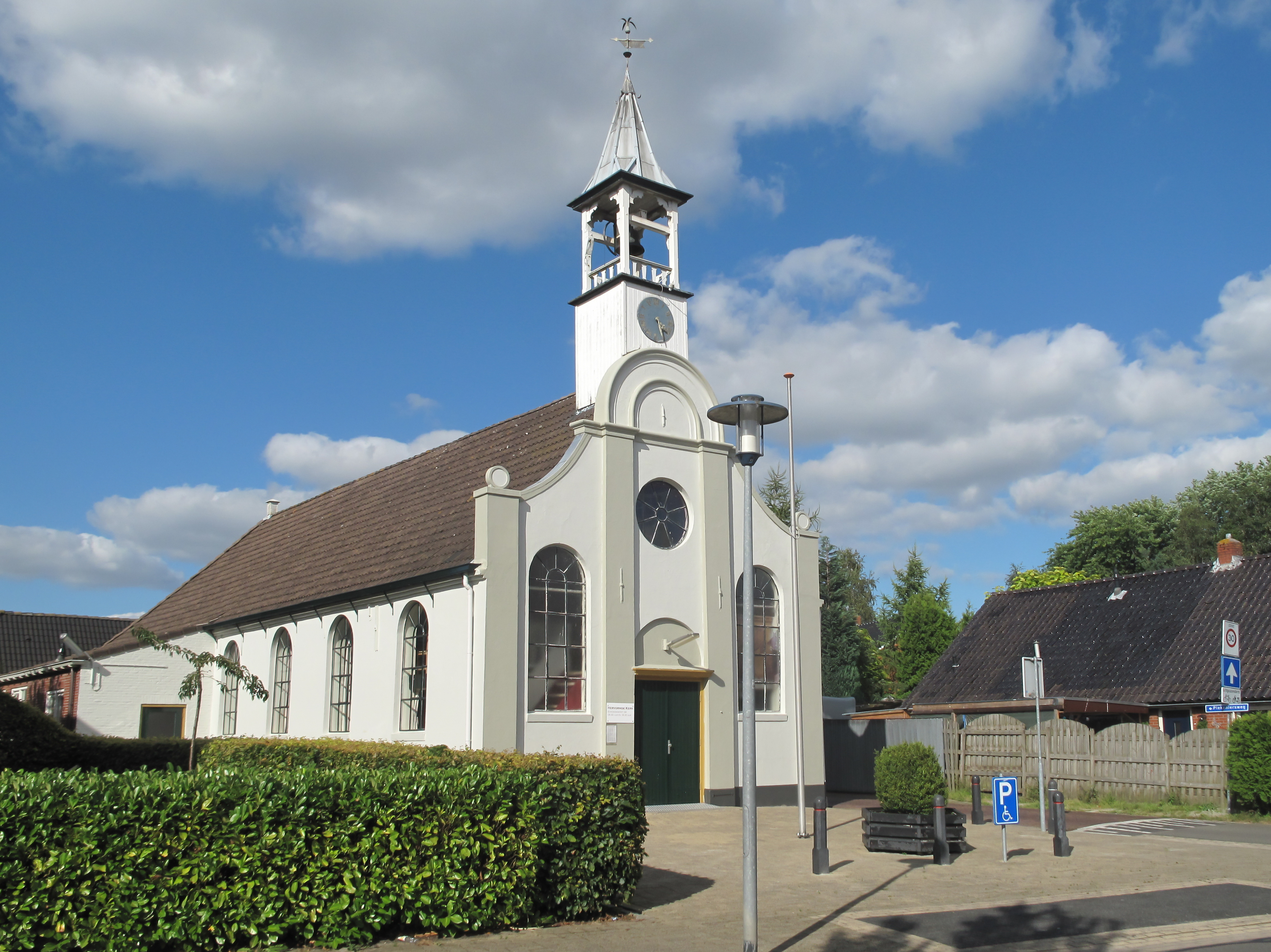 Heiligerlee, church from the Graaf Adolf stichting